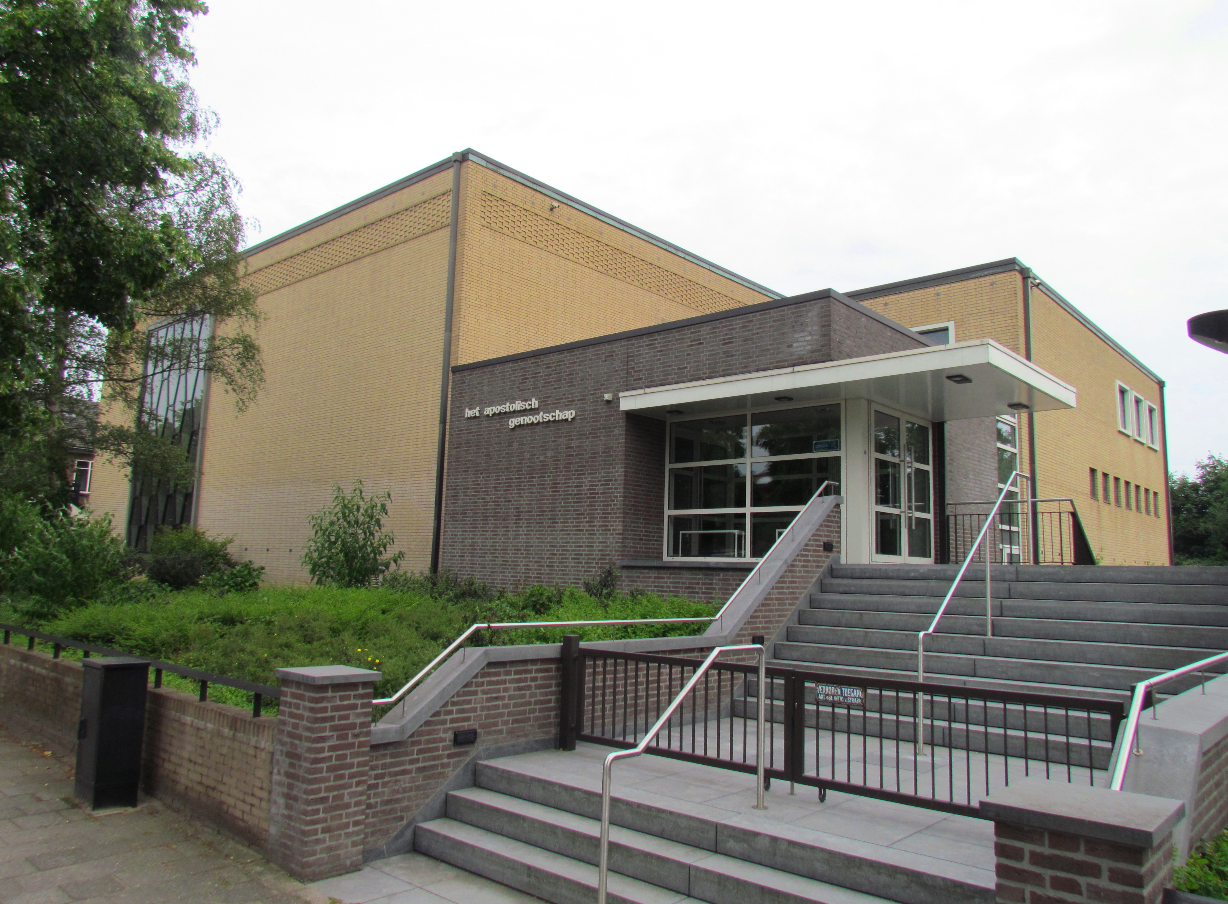 Gathering place (1966) of the Apostolic Society in Deventer, NL. Architect: J.D. van Arkel